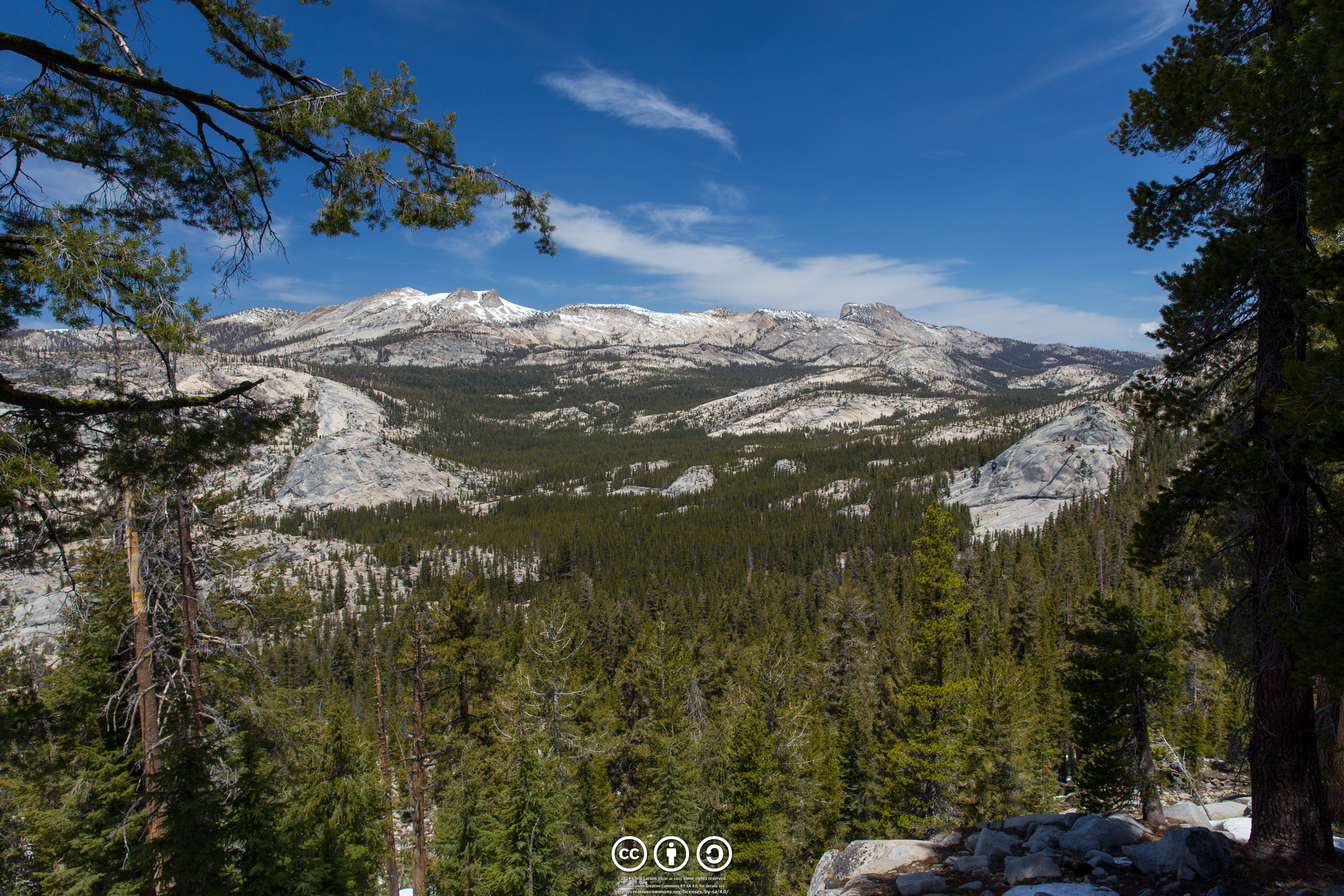 Mount Hoffman and Tuolumne Peak, area of Tuolumne Meadows, Yosemite National Park, California